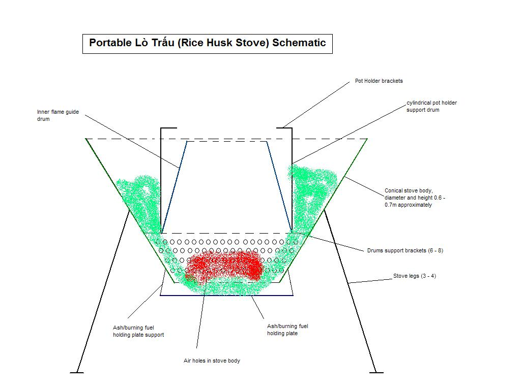 Portable Rice Husk Stove (Lò Trấu) developed by Vietnamese in unknown year, has been used at least since the 1980s or even earlier.